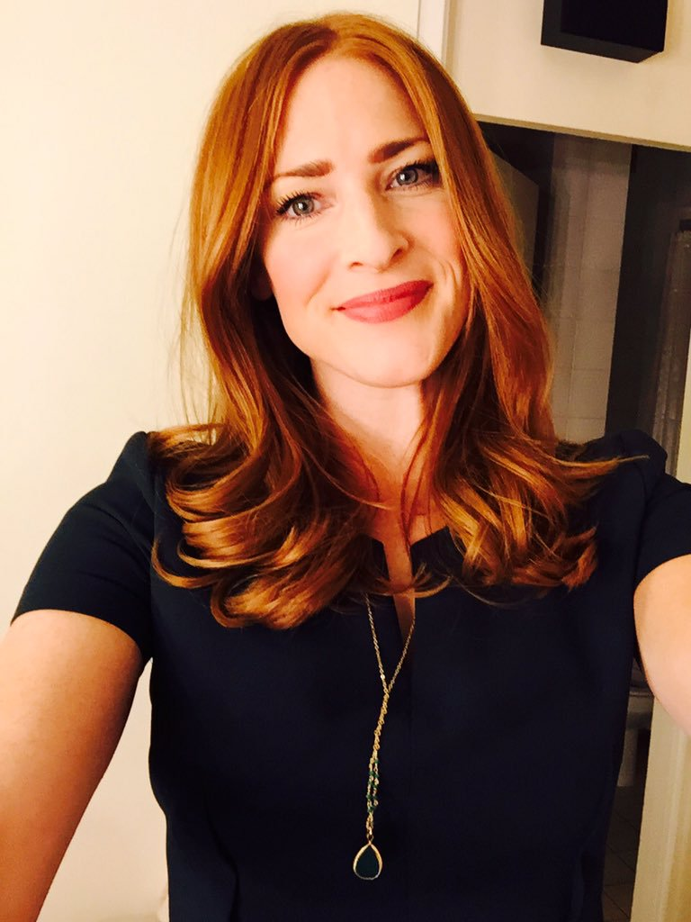 Rosalie Craig backstage at As You Like It, National Theatre. December 2015.